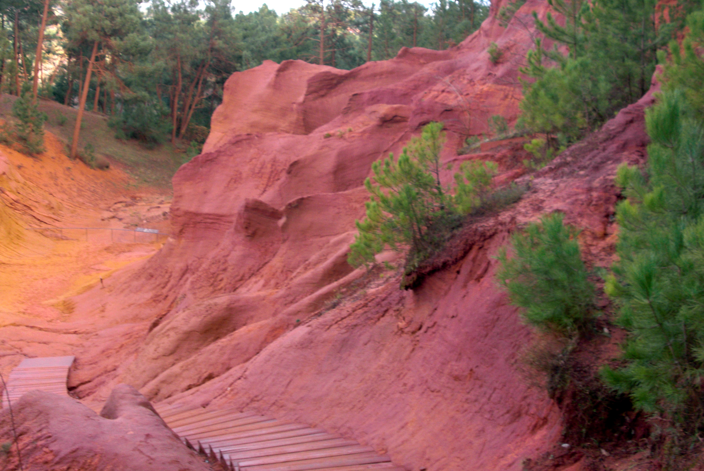 The ochre trail, Roussillon (Vaucluse, France)